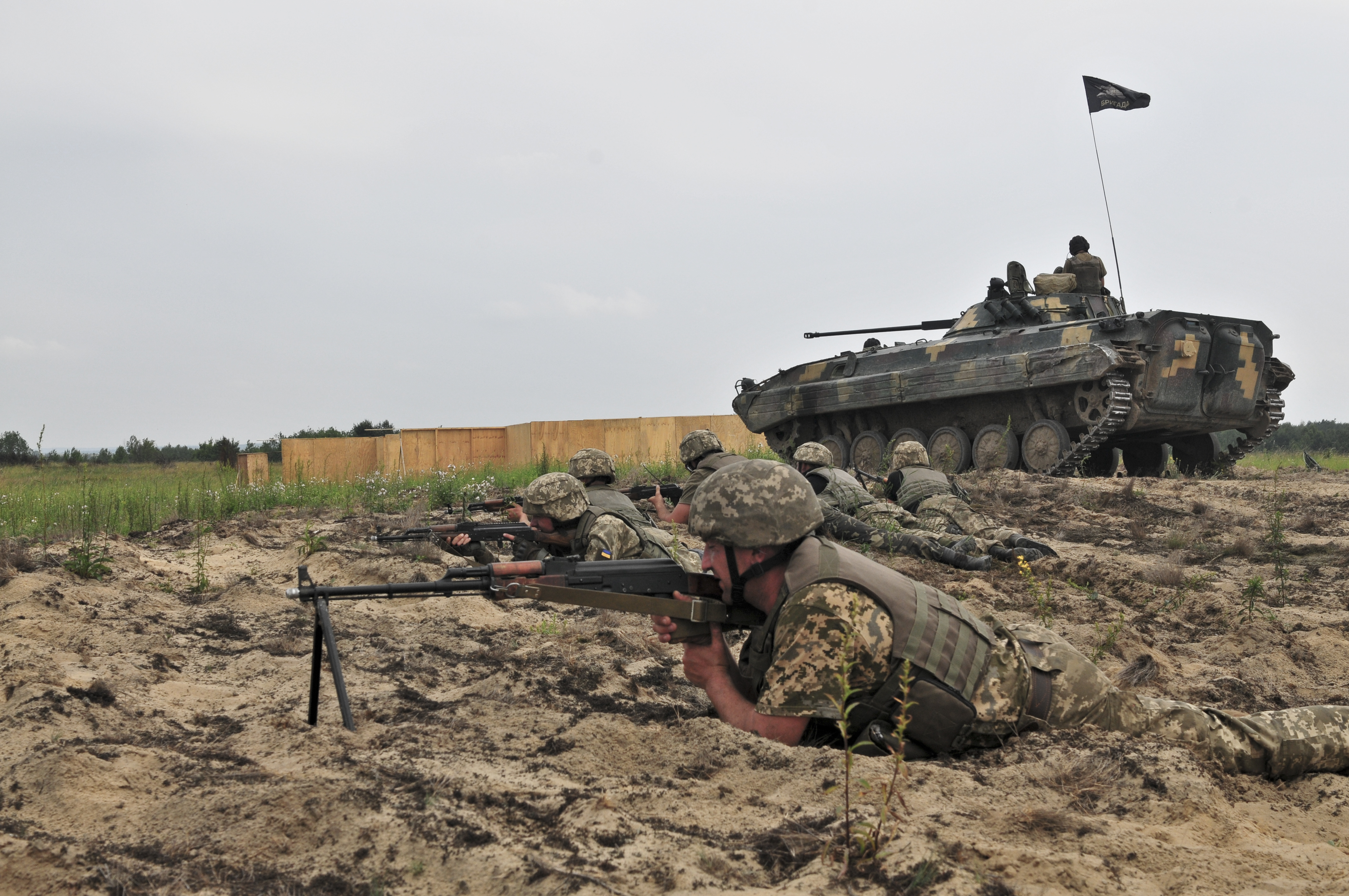 160623-A-IN006-004- A BMP-2 provides support by fire to Ukrainian infantry during a platoon live-fire on June 23, 2016 at the International Peacekeeping and Security Center near Yavoriv, Ukraine as part of Joint Multinational Training Group-Ukraine. Each JMTG-U rotation will consist of nine weeks of training where Ukrainian soldiers will learn defensive combat skills needed to increase Ukraine's capacity for self-defense. (U.S. Army photo by Capt. Scott Kuhn).